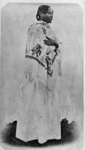 Betsimisaraka woman (Madagascar)